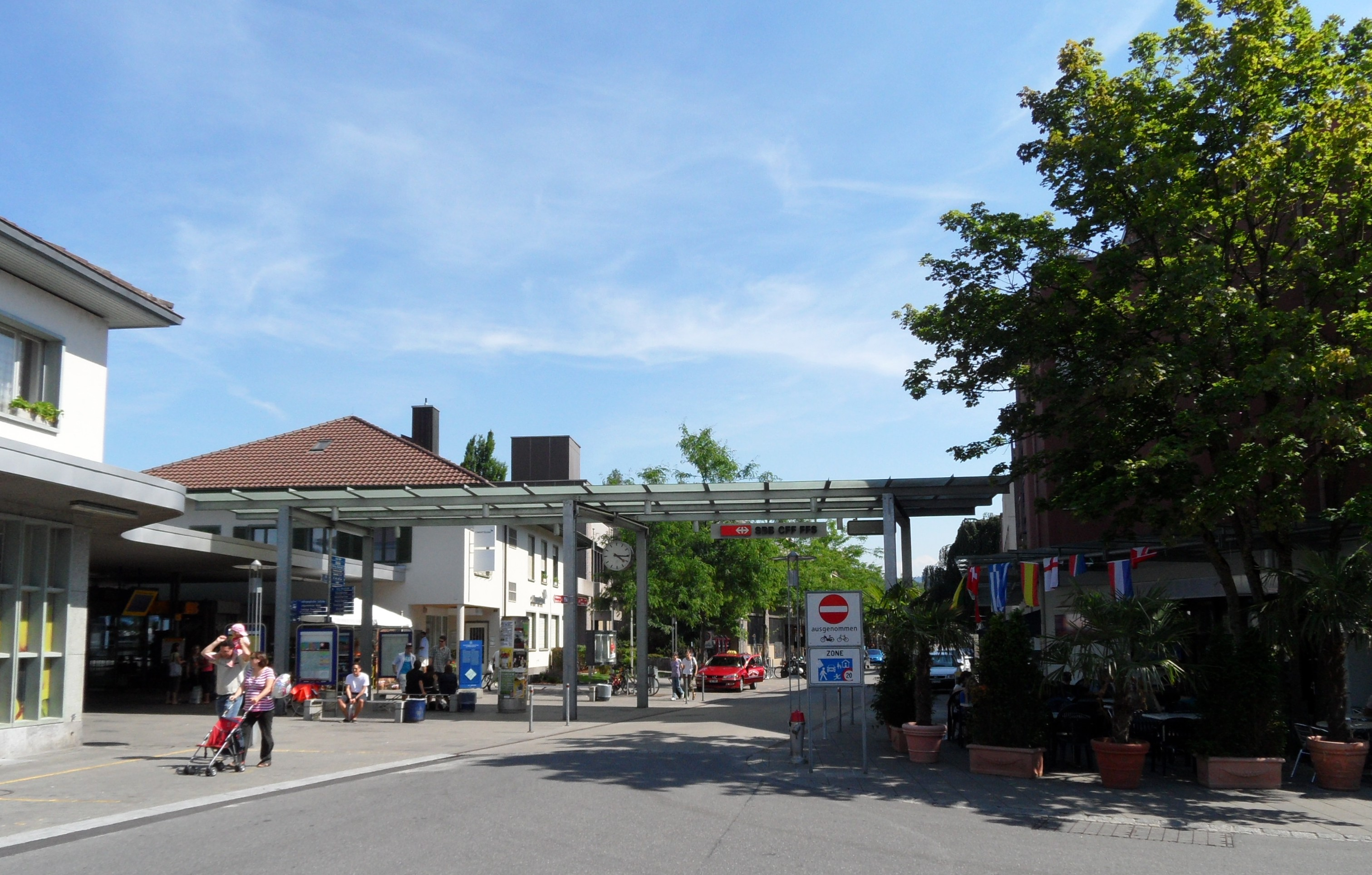 Railway station of Lyss, canton of Bern, Switzerland.